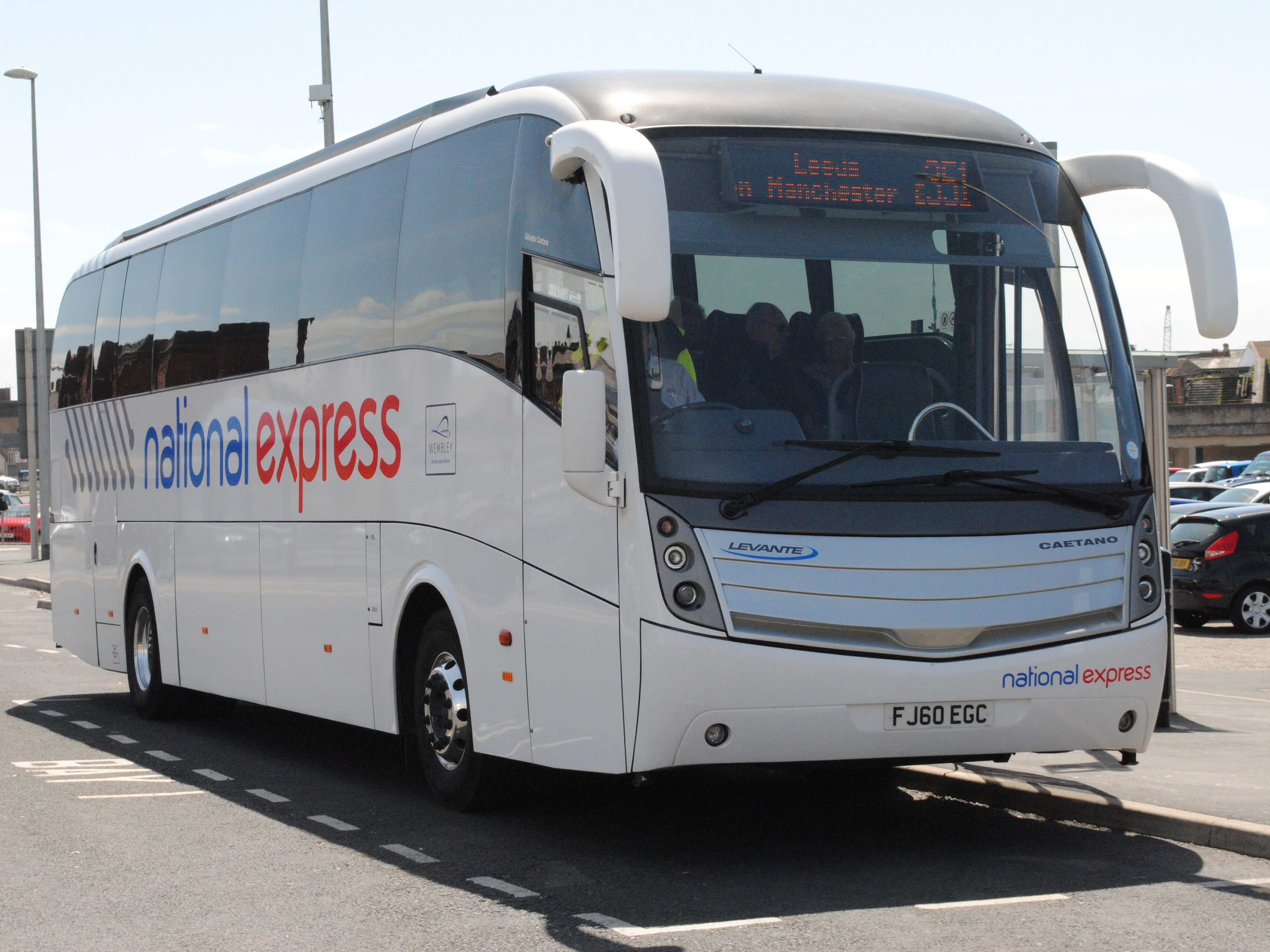 Volvo B9R Caetano Levante. National Express 351 Blackpool - Leeds route seen here in Blackpool Bonny Street Coach Station